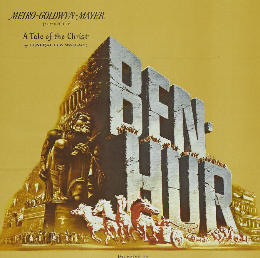 Ben-Hur (1959) film poster. Square crop for DYK